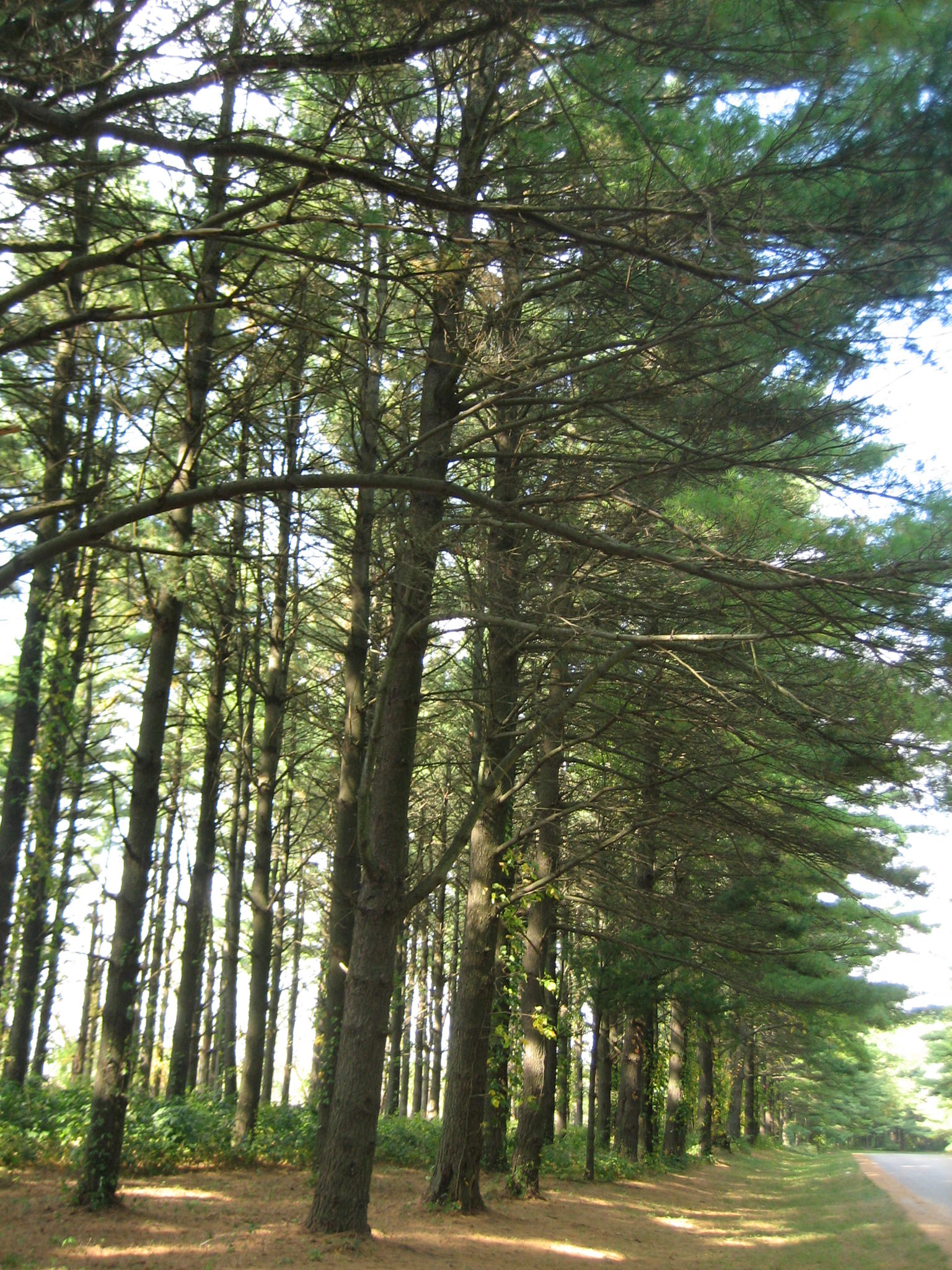 White Pines Forest State Park, near Polo, Oregon and Byron, Illinois. A portion of the southernmost native White Pine stand in Illinois.